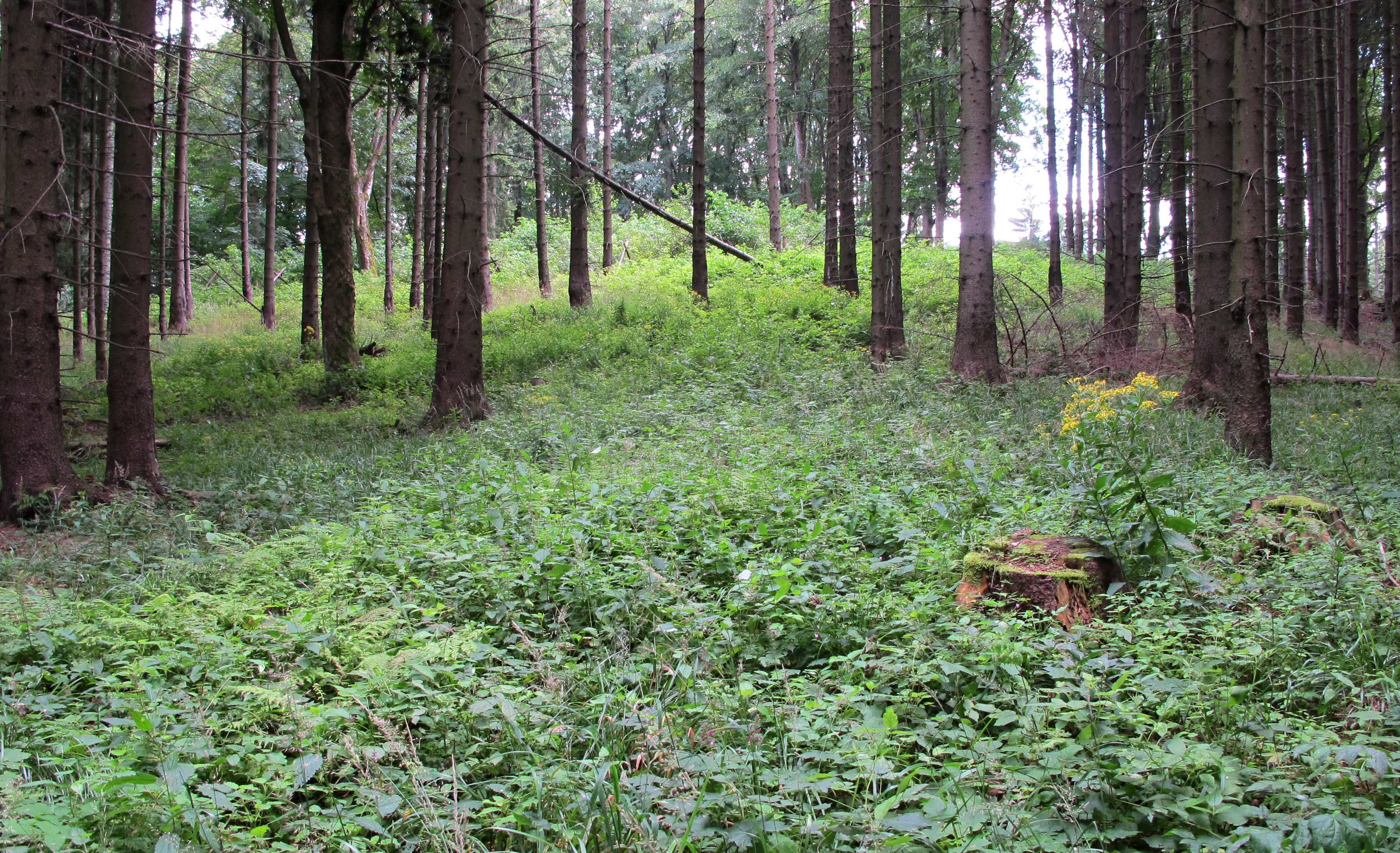 Natural monument Třemešný vrch, near Rožmitál pod Třemšínem in Příbram District (Czech Republic)